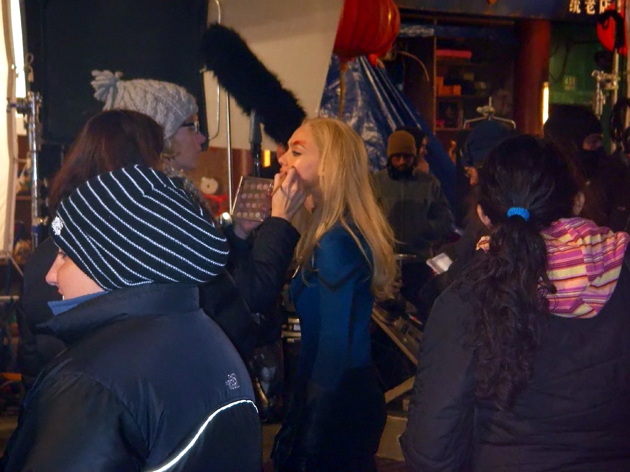 Jessica Alba getting makeup placed on her face on the film set for Fantastic Four: Rise of the Silver Surfer.